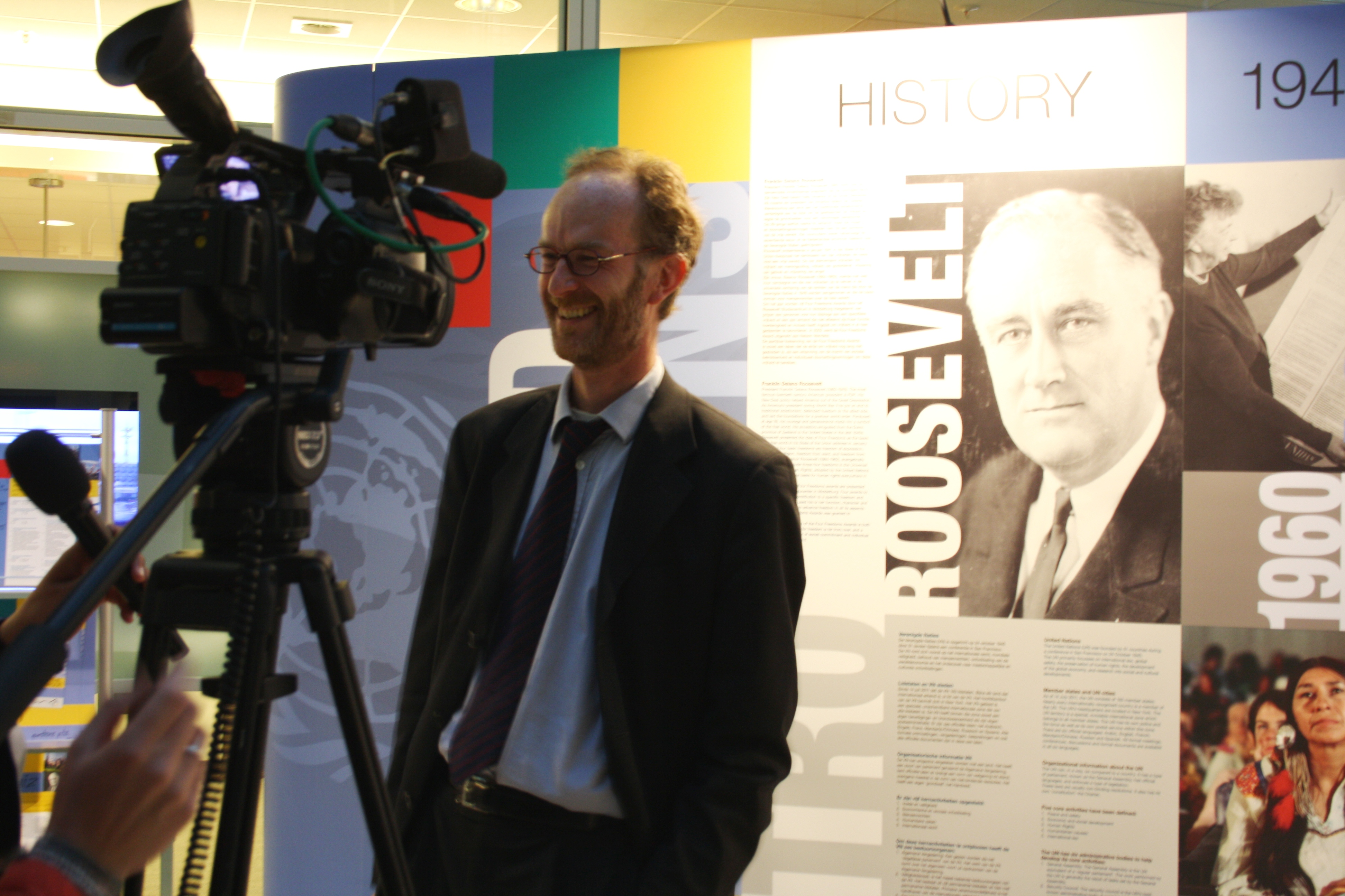 Prof. Scott-Smith at a United Nations celebration in The Hauge, Fall 2012